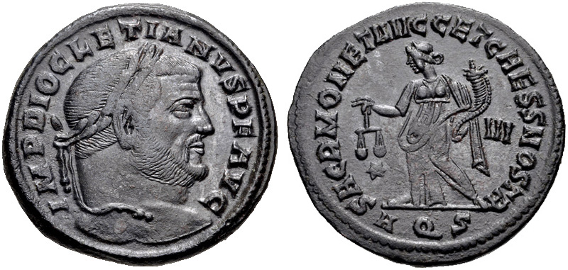 Diocletian. AD 284-305. Æ Follis (27mm, 9.04 g, 6h). Aquileia mint, 2nd officina. Struck AD 303. IMP DIOCLETIANUS PF AUG, Laureate head right SACR MONET AVGG E7 CAESS NOSTR, Moneta standing left, holding scales and cornucopia; *-VI. AQS in exergue. RIC VI 37a.; Cohen 435